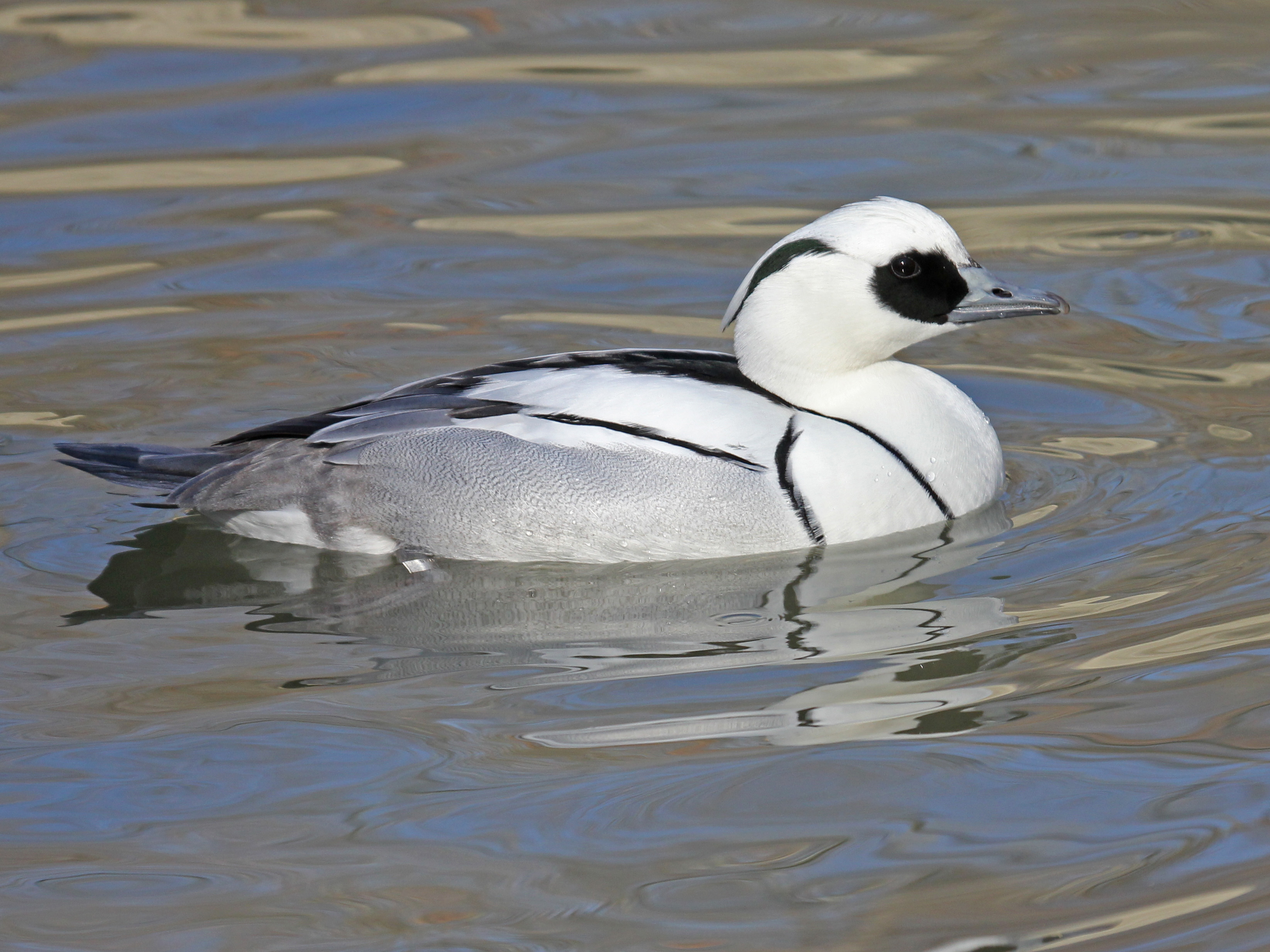 Male Smew (Mergellus albellus) - Sylvan Heights Waterfowl Park, North Carolina